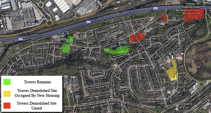 this is a map view of the towers on the bromford estate